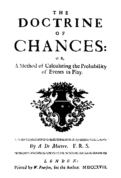 Front page of "Doctrine of Chance – a method for calculating the probabilities of events in plays" by Abraham de Moivre, London, 1718